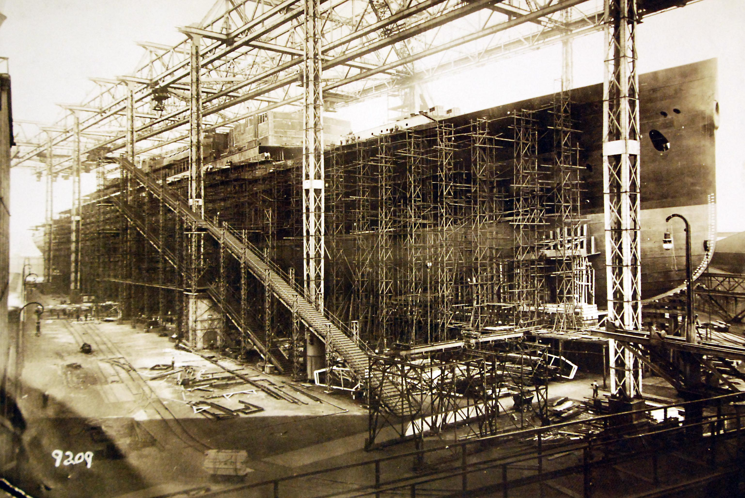 Lot-11263-3: German ocean liner Bismark, the sister ship to SS Vaterland, Hamburg American Line. Bismark was turned over to Great Britain as compensation for the sinking of HMHS Britannic and served as RMS Majestic, later SS Majestic. George G. Bain Collection. Courtesy of the Library of Congress. (2016/07/01).